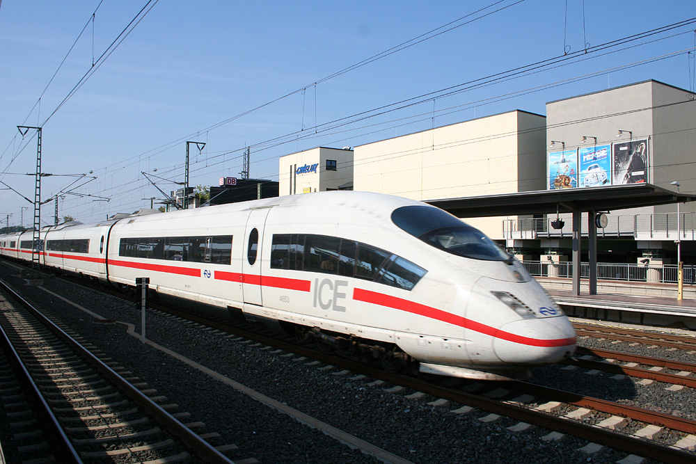 An ICE 3 unit passing through the station of Siegburg/Bonn, near Cologne, Germany. (the file name KSIB refers to the internal designation of the station.